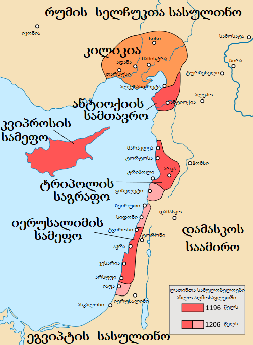 Near east in 1197.